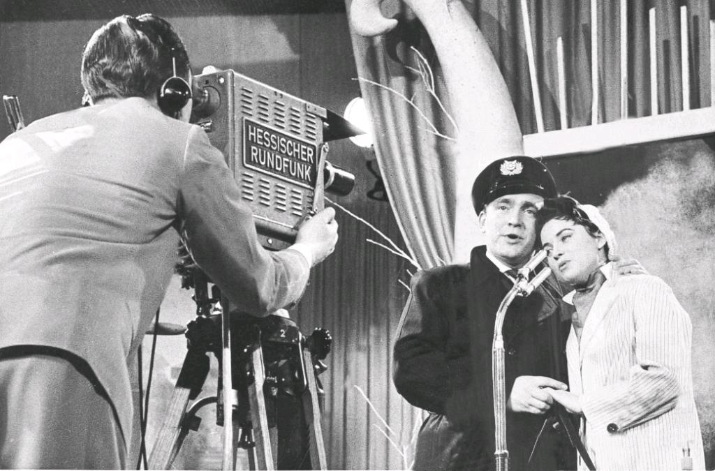 Birthe Wilke & Gustav Winckler, performing for Denmark at the Eurovision Song Contest 1957